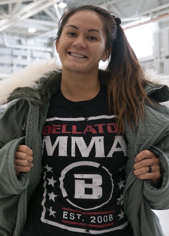 Vice Chairman of the Joint Chiefs of Staff Air Force Gen. John E. Hyten, Senior Enlisted Advisor to the Chairman (SEAC) Ramon "CZ" Colon-Lopez and USO entertainers meet and perform for service members at Fort Wainwright, Alaska, March 4, 2020, during the annual Vice Chairman’s USO Tour. Hyten, along with USO entertainers, will be visiting service members at various locations throughout the nation. This year’s entertainers include comedians Scot Armstrong and Matt Walsh, actor Brad Morris, country music band LoCash, MMA Fighter Illima-Lei Macfarlane and DJ J. Dayz. (DOD Photo by Navy Petty Officer 1st Class Carlos M. Vazquez II)